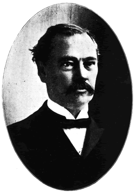 Subject: Nathaniel Harris at and converted to png